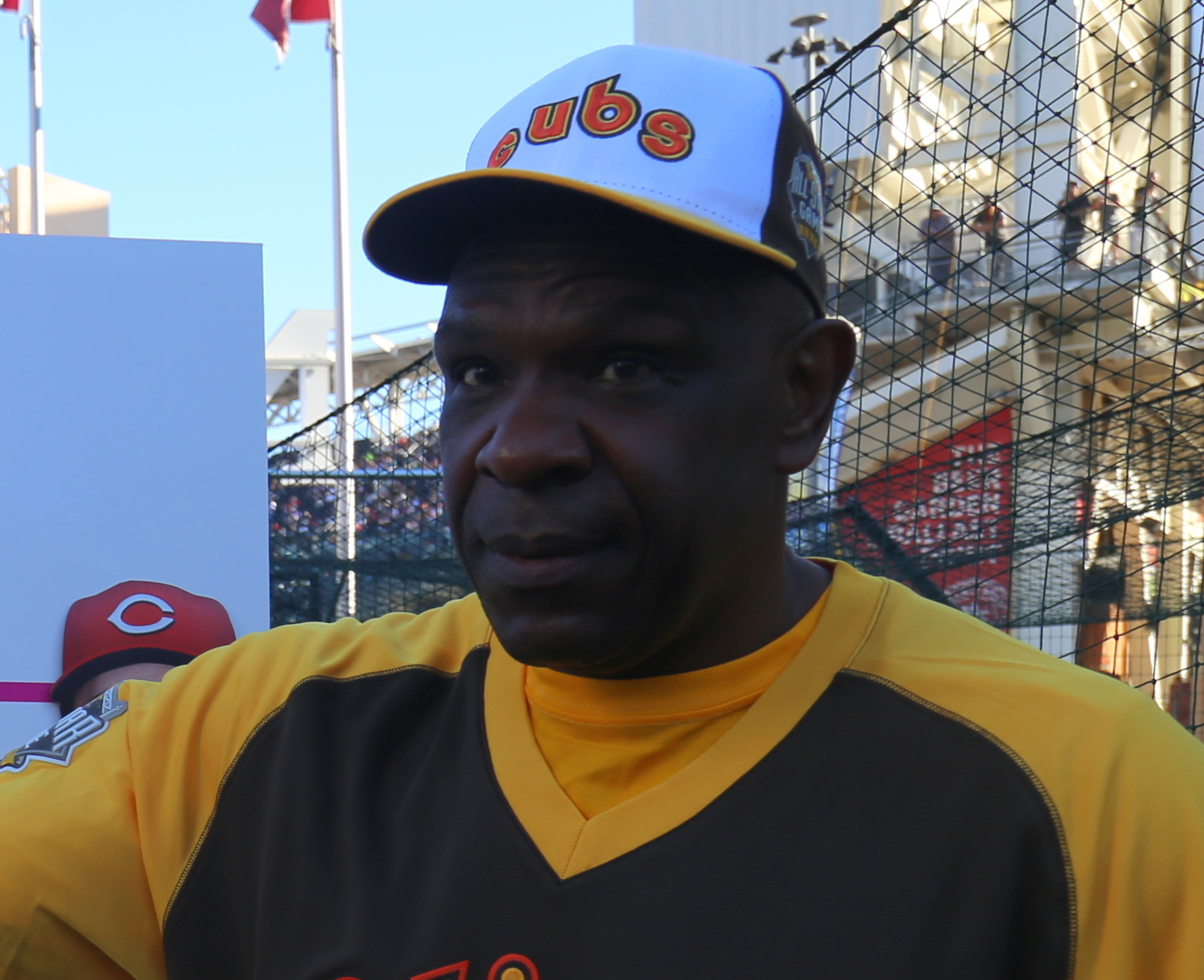 Hall of Famer Andre Dawson makes his T-Mobile #HRDerby pick - Giancarlo Stanton.